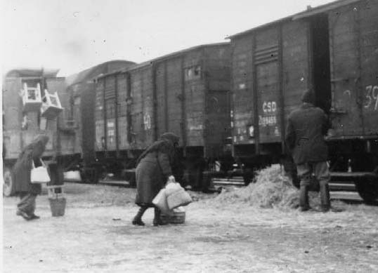 Authority: [1] Proprietorship:[National Archives of Hungary, Budapest, Hungary]